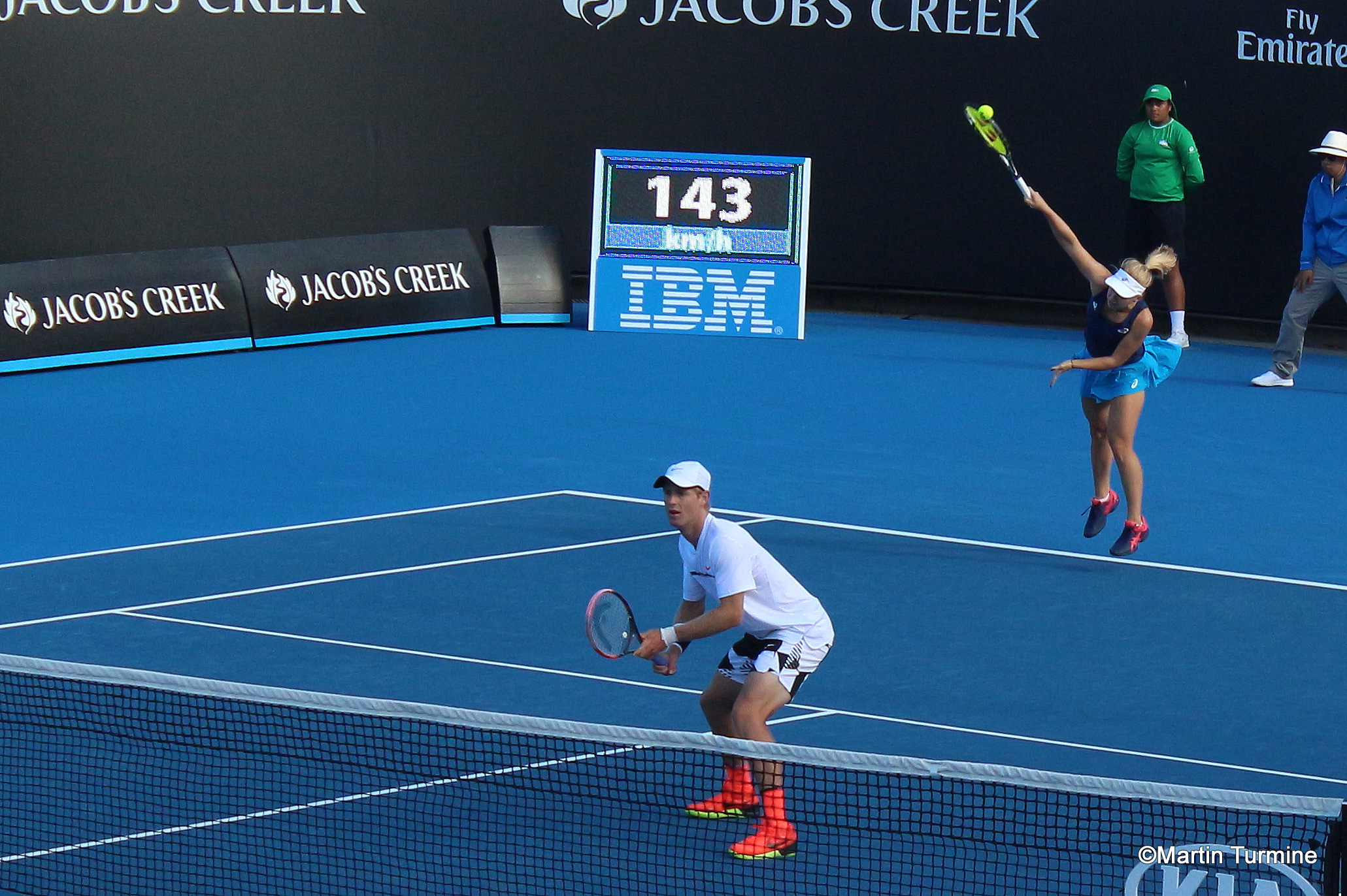 Daria Gavrilova and Luke Saville at the 2017 Australian Open